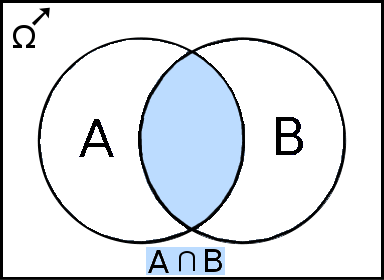 Intersection of sets